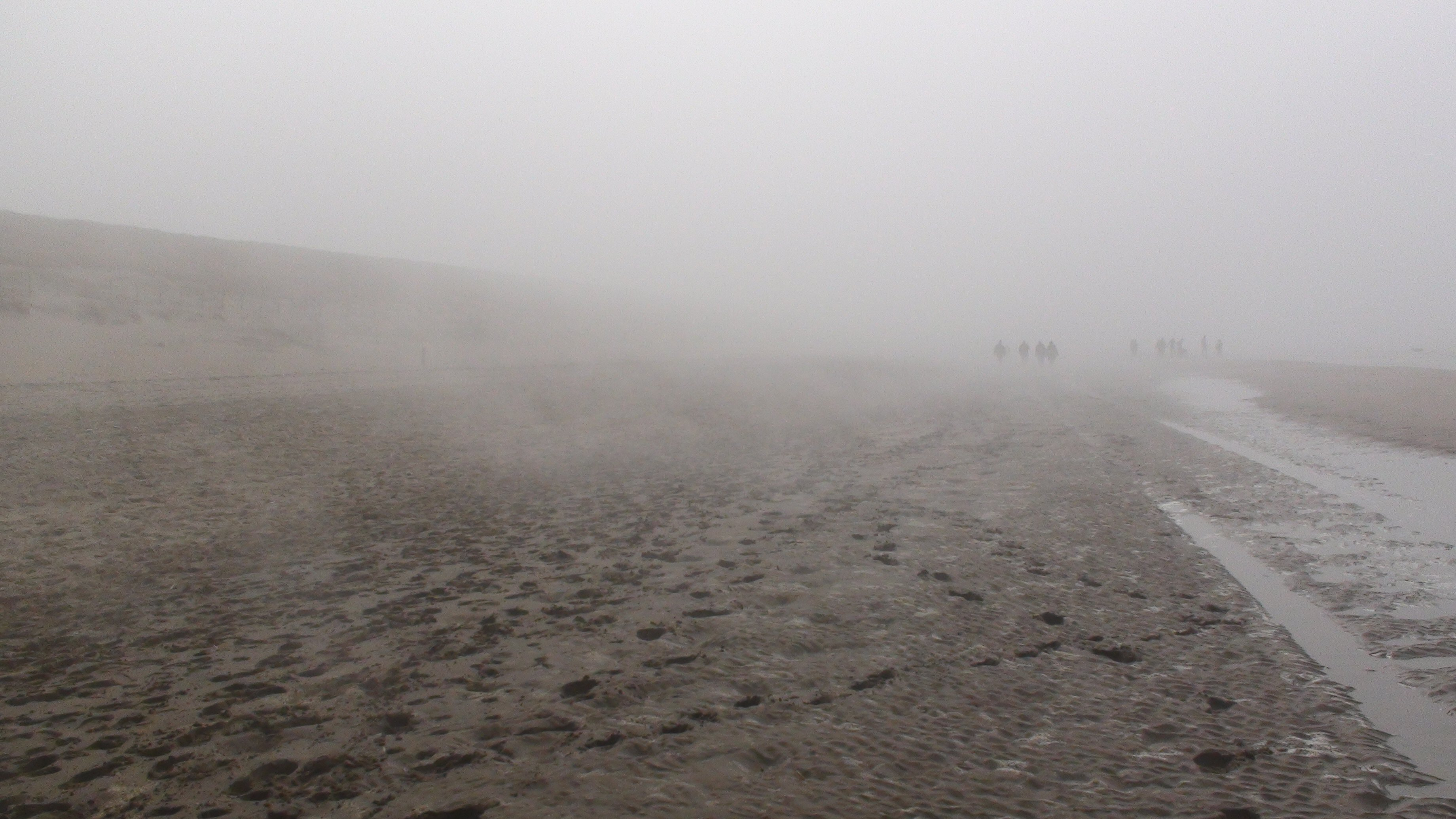 For on the beach near Noordwijkerhout.